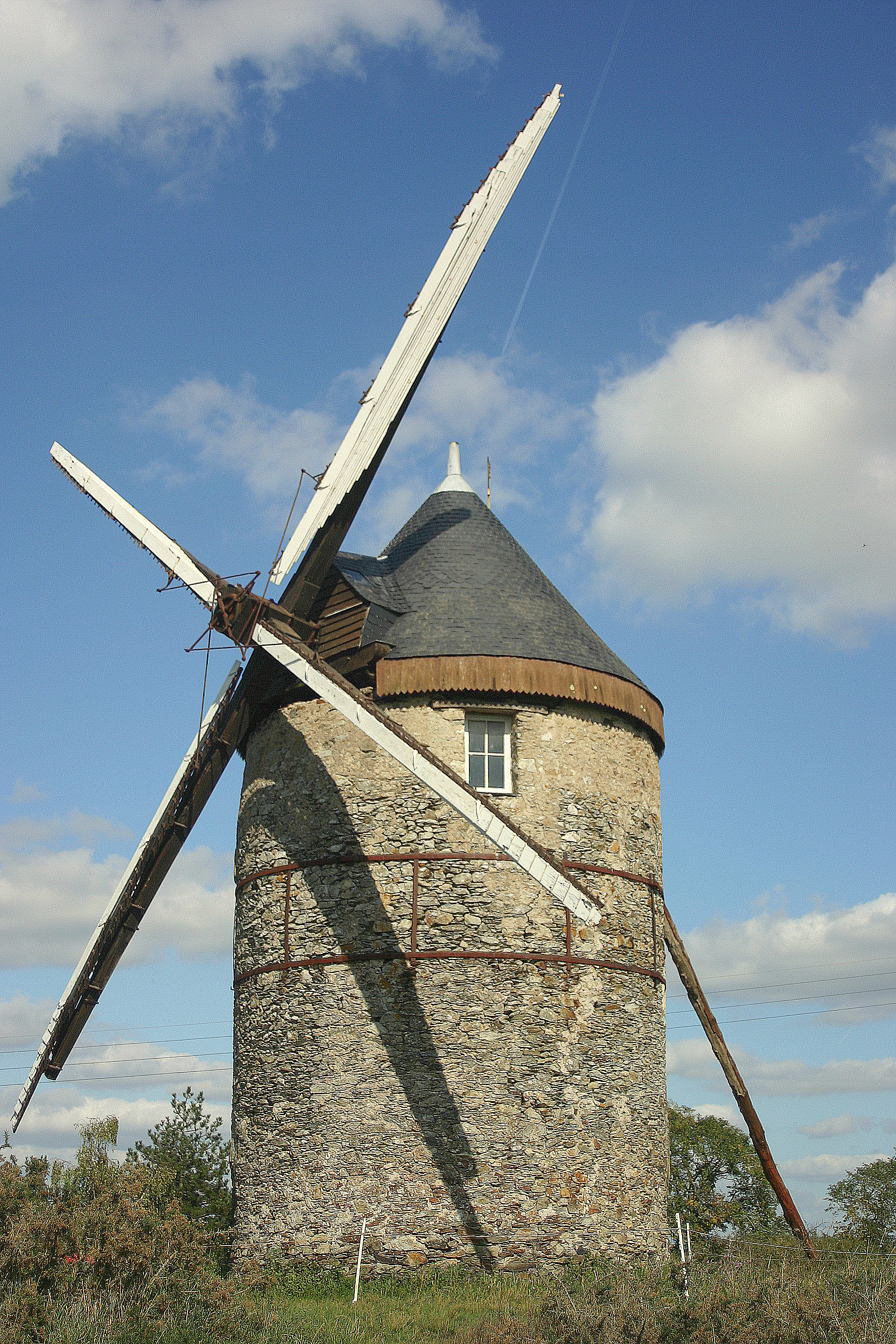 A 17e century windmill, in La Possonnière (France)